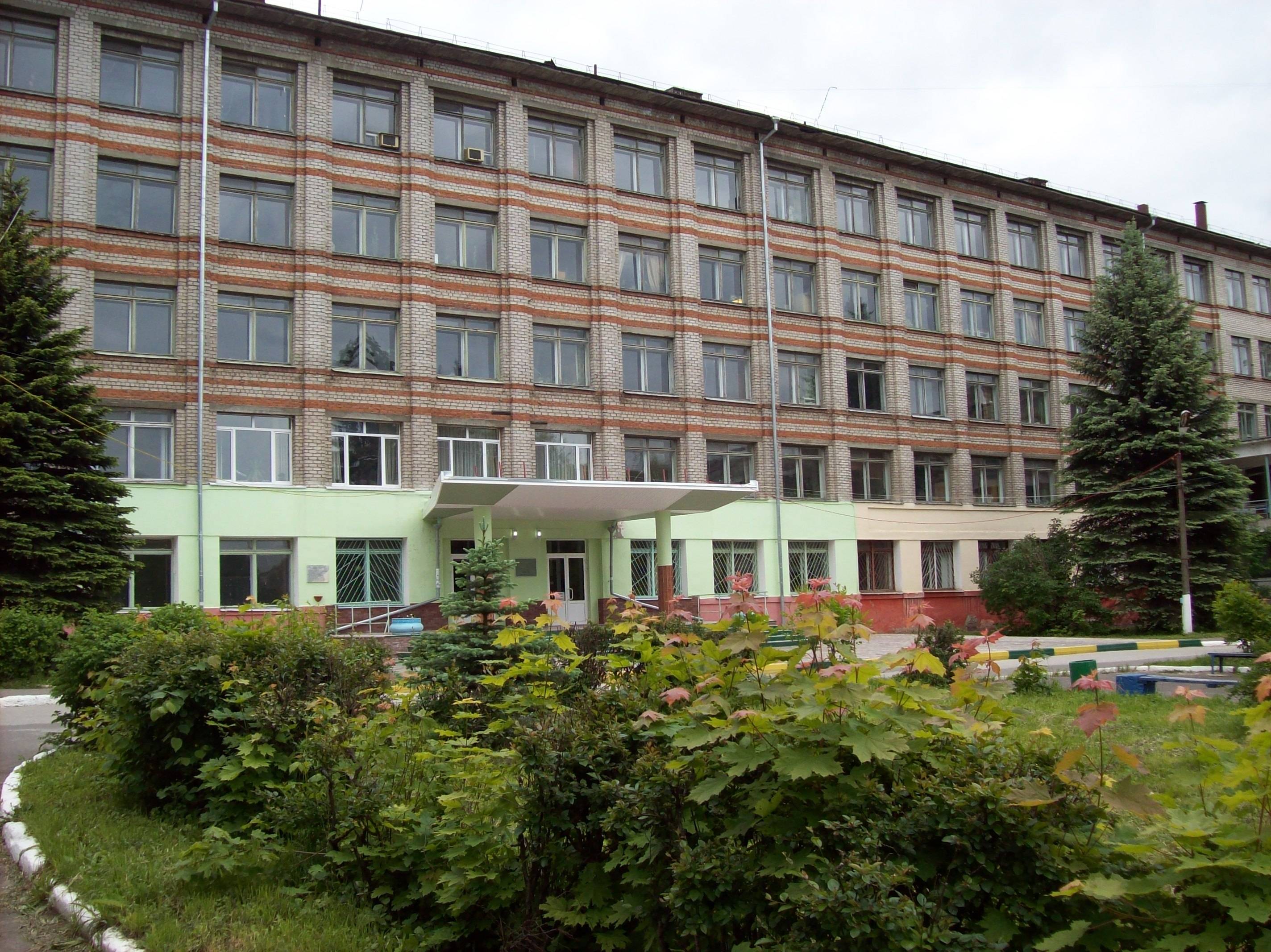 Nizhny Novgorod State Agricultural Academy